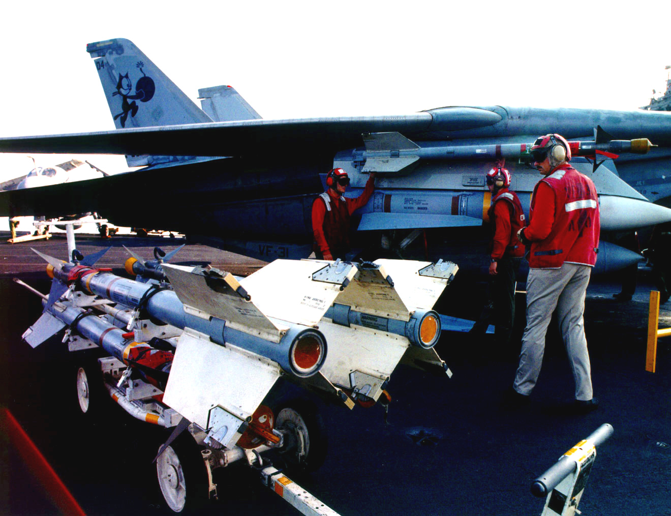 U.S. Navy aviation ordnancemen load Sidewinder and Phoenix missiles as they prepare an F-14 Tomcat for the first patrol of the extended no-fly zone over Iraq on Sept. 4, 1996. President Clinton announced an expanded no-fly zone in response to an Iraqi attack against a Kurdish faction. The larger no-fly zone in Southern Iraq will make it easier for U.S. and coalition partners to contain Saddam Hussein's aggression. The Fighter Squadron 31 Tomcat is operating from the flight deck of the aircraft carrier USS Carl Vinson (CVN 70) deployed to the Persian Gulf in support of Operation Southern Watch.